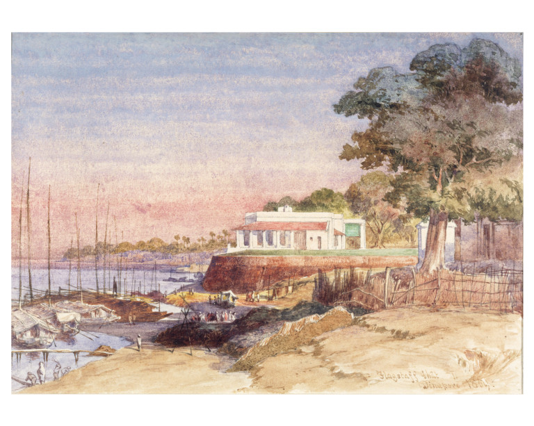 Flagstaff ghat on the Ganges at Dinapur, Patna, 1859.